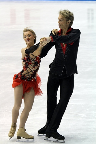 2010 NHK Trophy - Penny Coomes and Nicholas Buckland